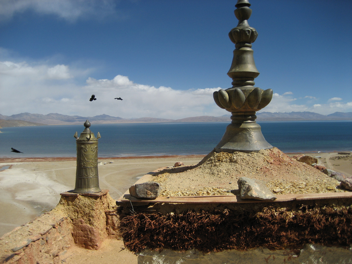 View from Chiu Gompa Monastery to Manasarovar Lake